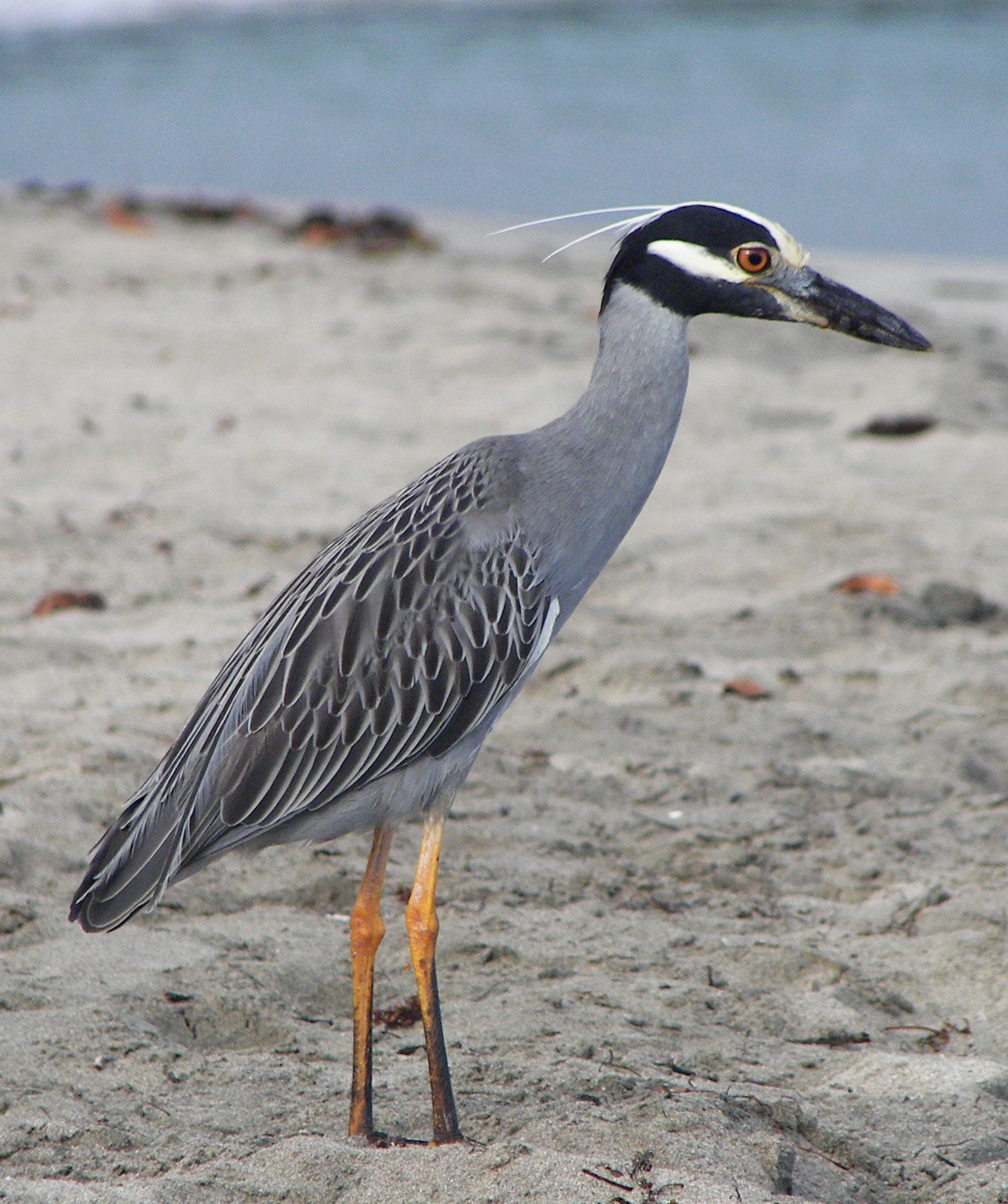 Yellow-crowned Night Heron Nycticorax violaceus in its natural environment on the Caribbean Sea Coast at the Cahuita National Park, Costa Rica